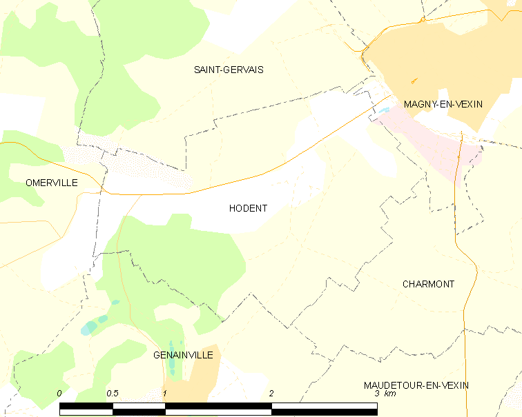 Map of French municipality Hodent